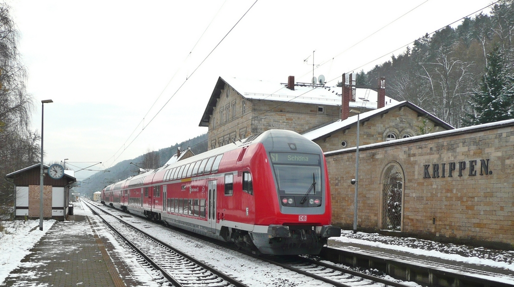 train of the Dresden S-Bahn with a Bombardier Double-deck Coach in Krippen.